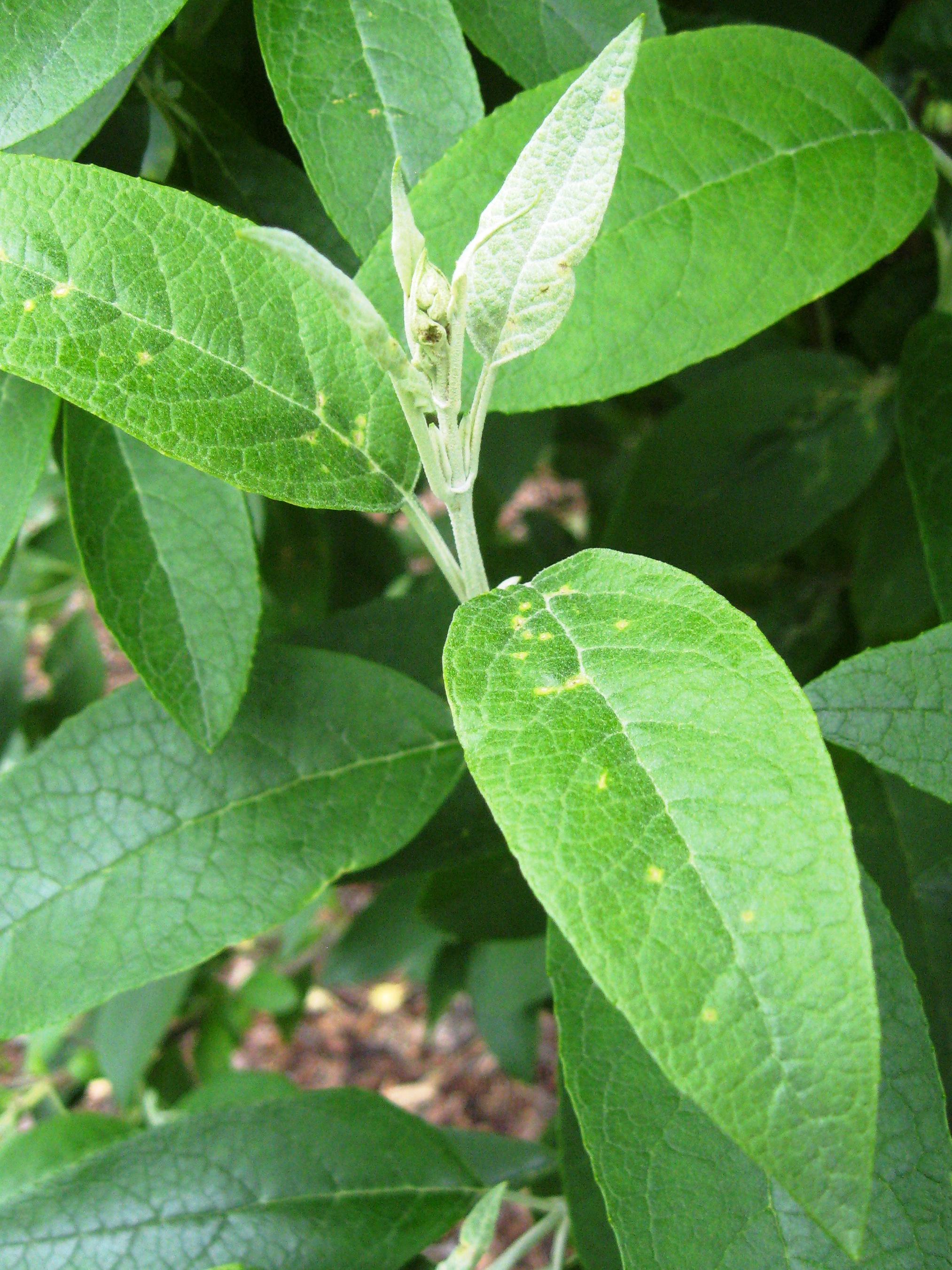 Photo of Buddleja cordata leaves and flower bud, taken at Longstock Park Nursery, Hampshire, UK